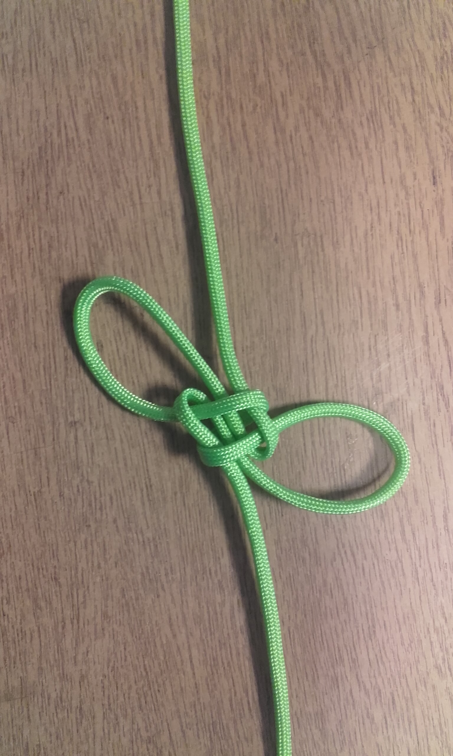 A decorative variant of the friendship knot or Chinese cross knot is the winged cross knot.